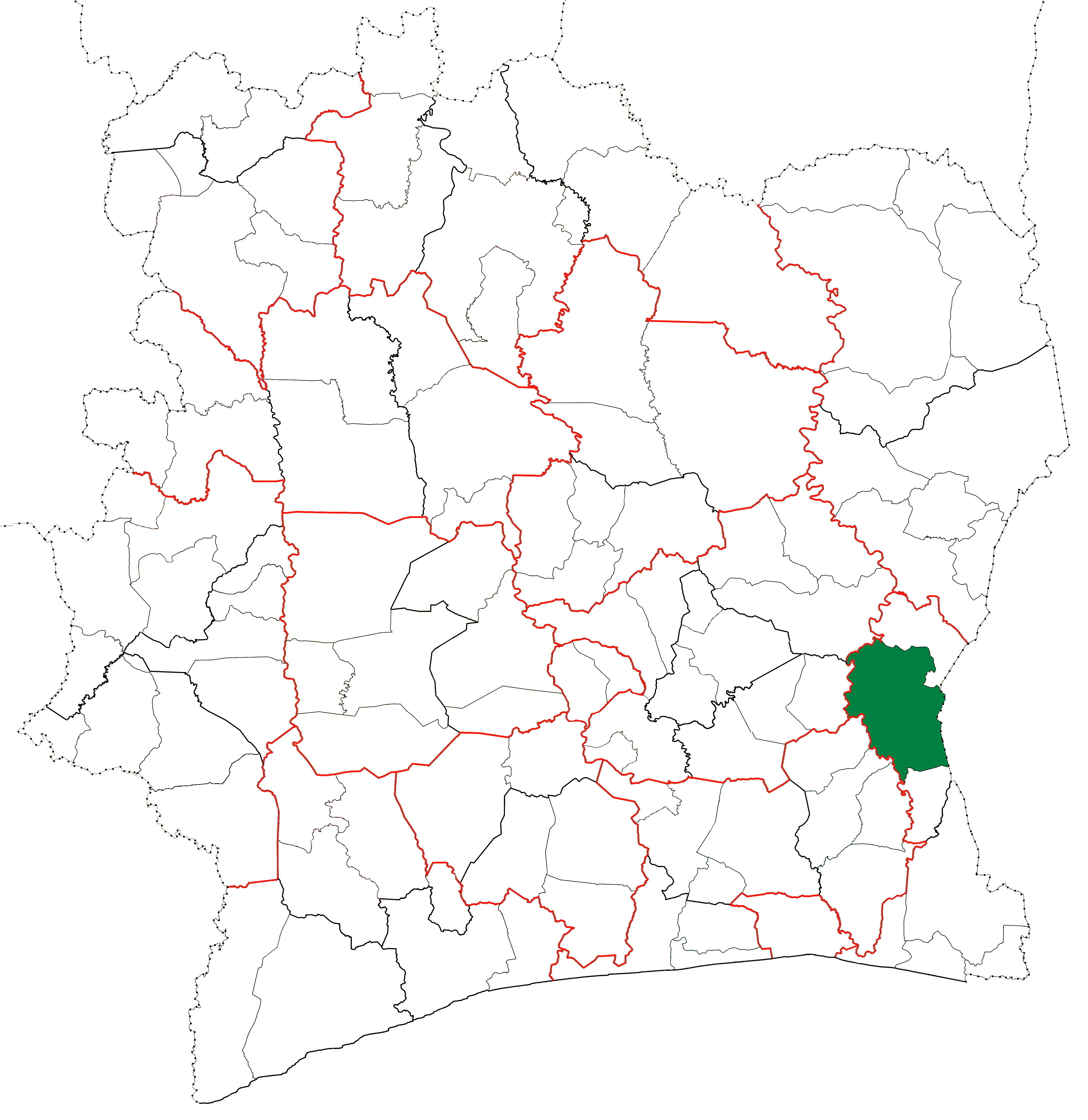 Locator map for Abengourou Department in Côte d'Ivoire.